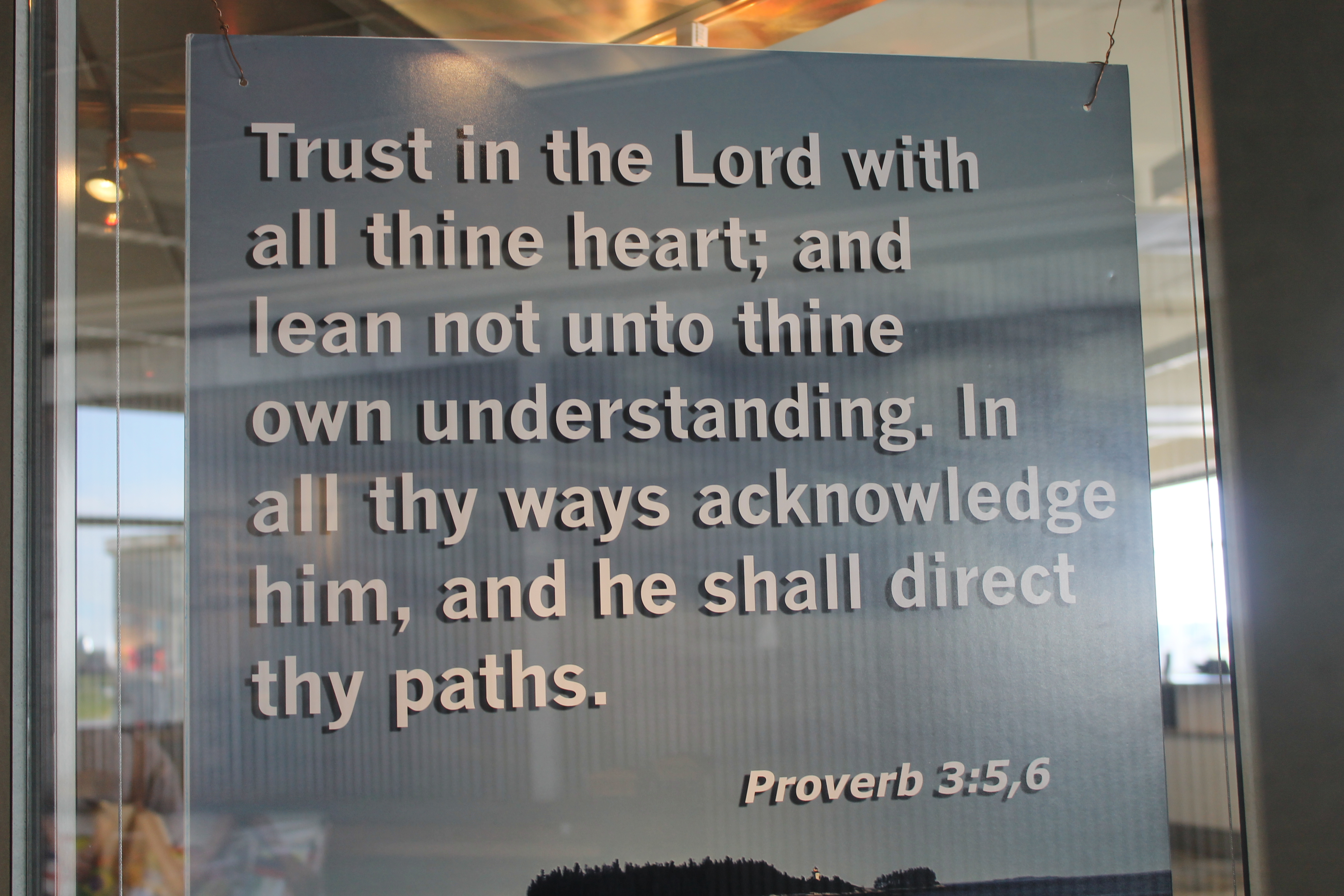 I took photo of Proverbs sign at Portland International Jetport in Portland, ME.